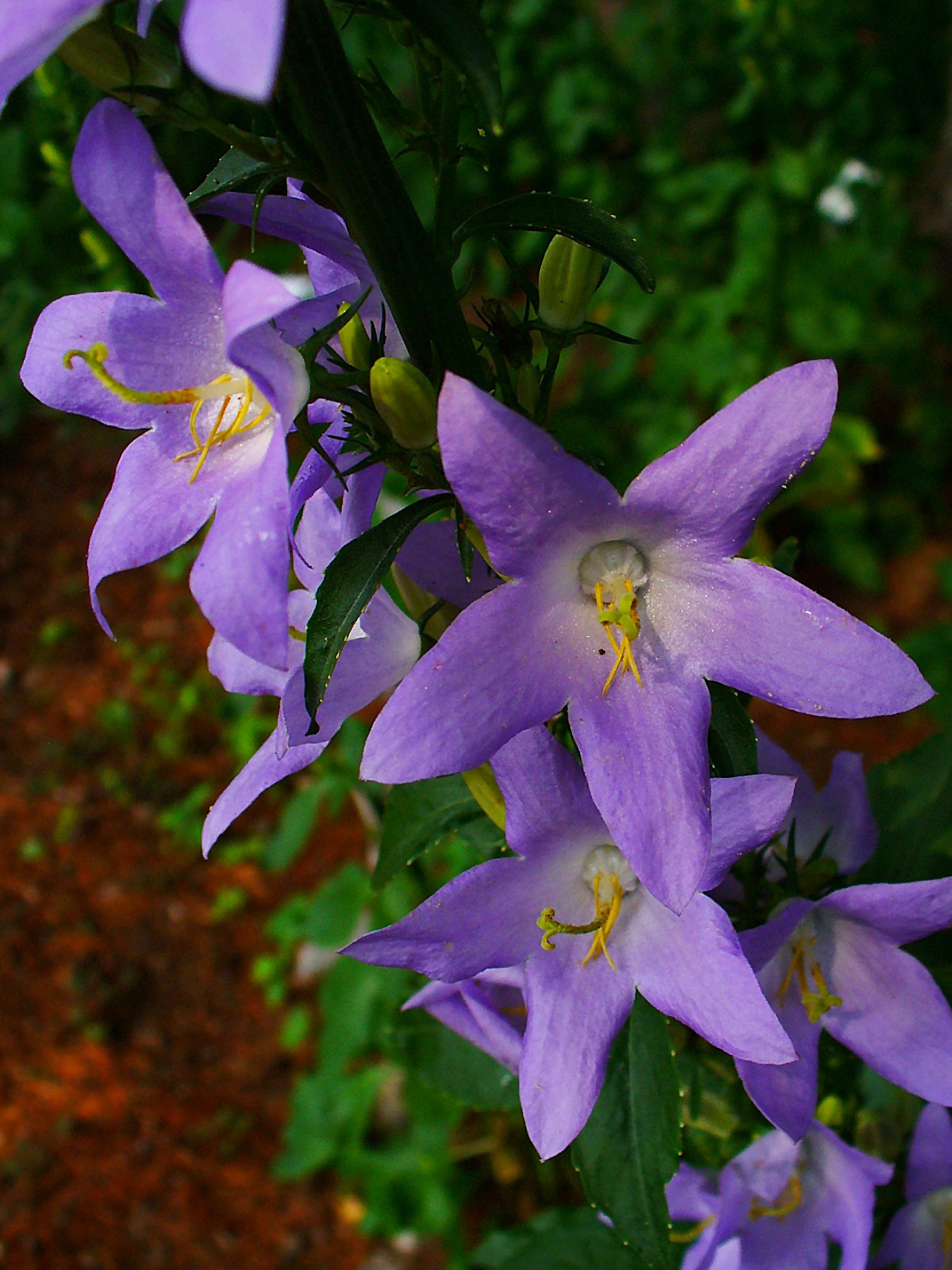 Campanula pyramidalis, Campanulaceae, Chimney Bellflower, flowers; Botanical Garden KIT, Karlsruhe, Germany.